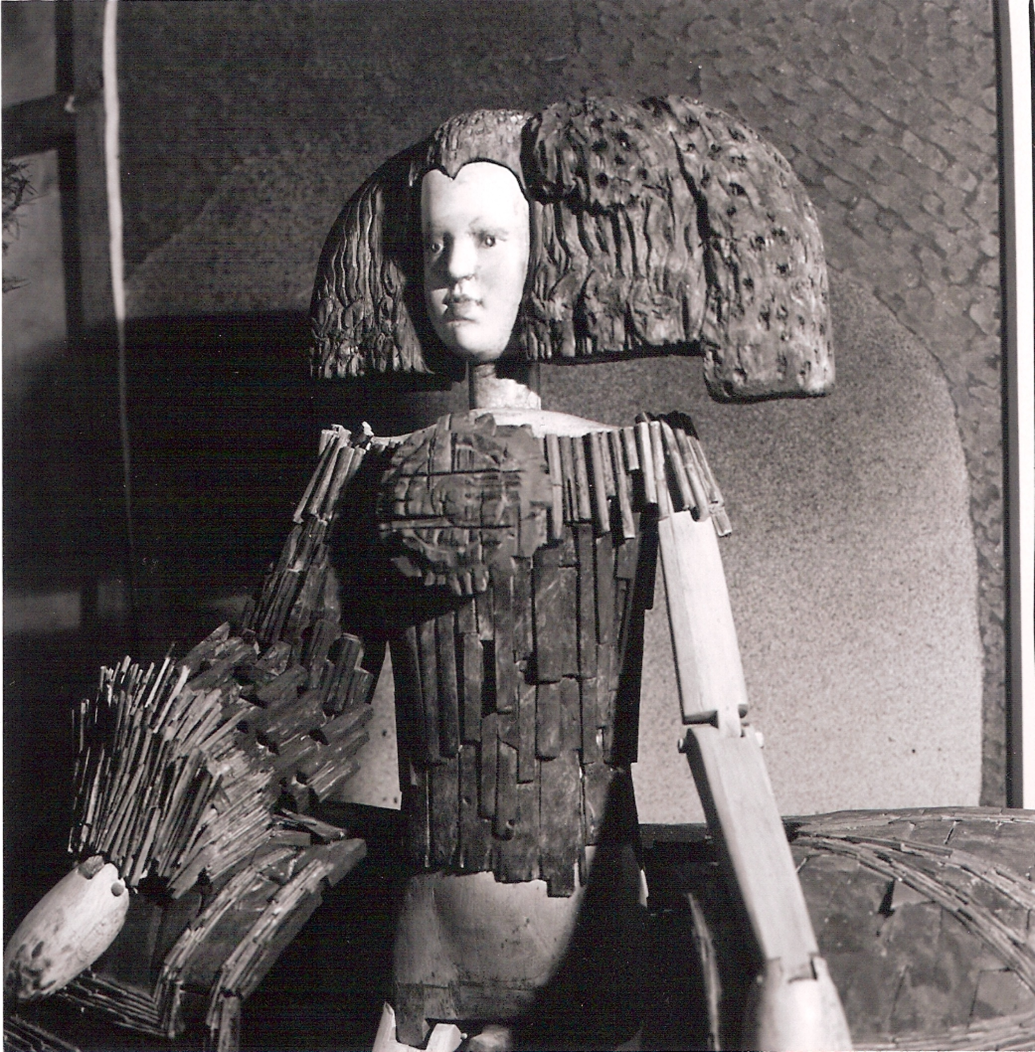 Sculpture by Juan Antonio Palomo